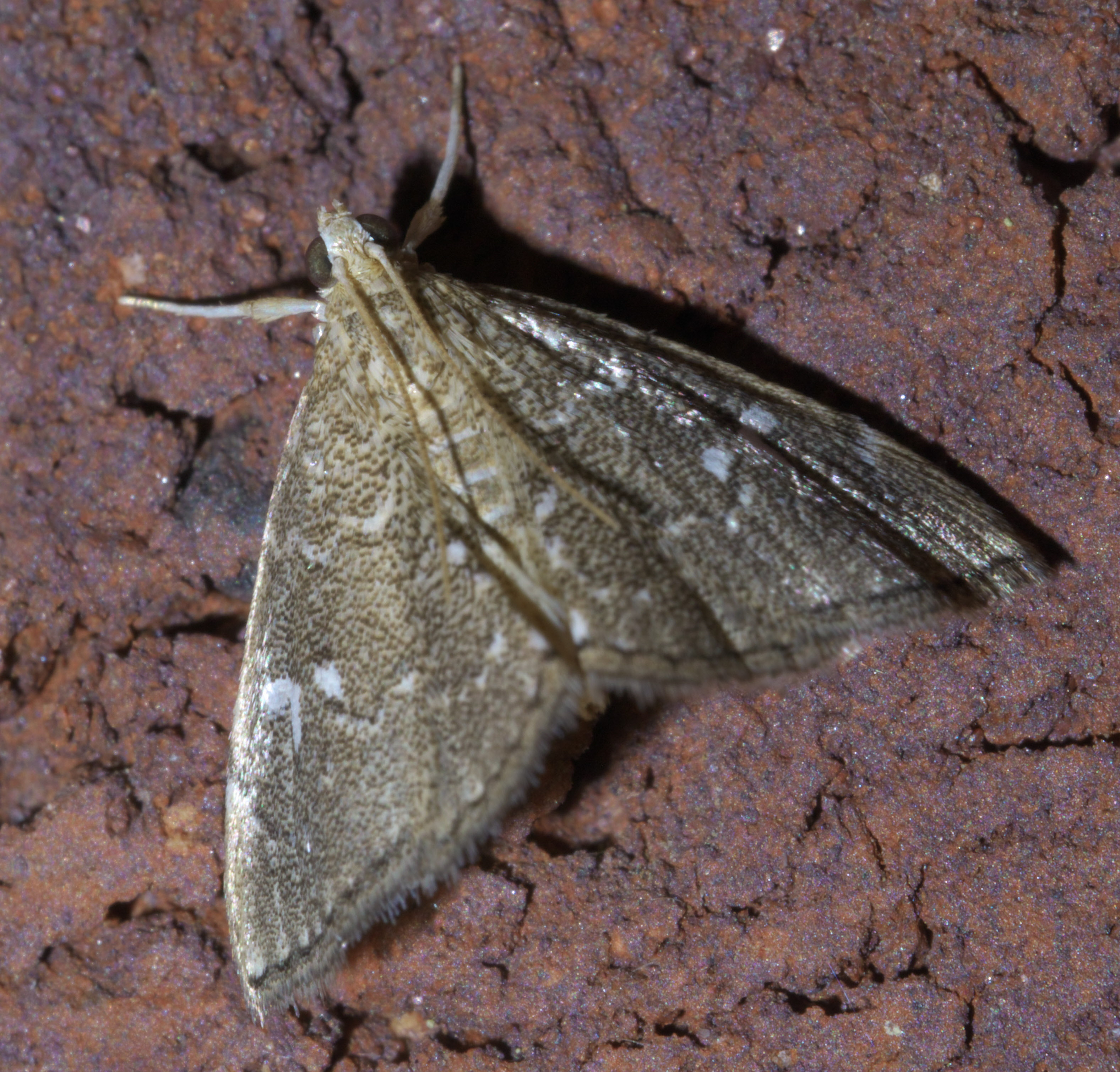 Nephrogramma reniculalis, kidney moth, Size: 5.9 mm body, ID Confidence: 87